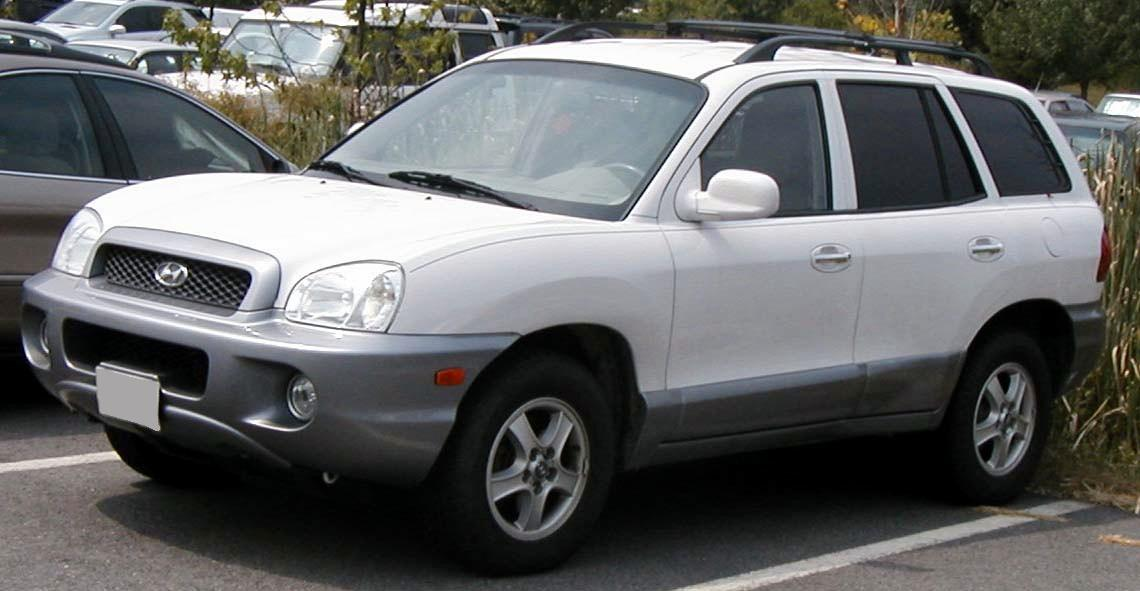 2001-2004 Hyundai Santa Fe photographed in USA.